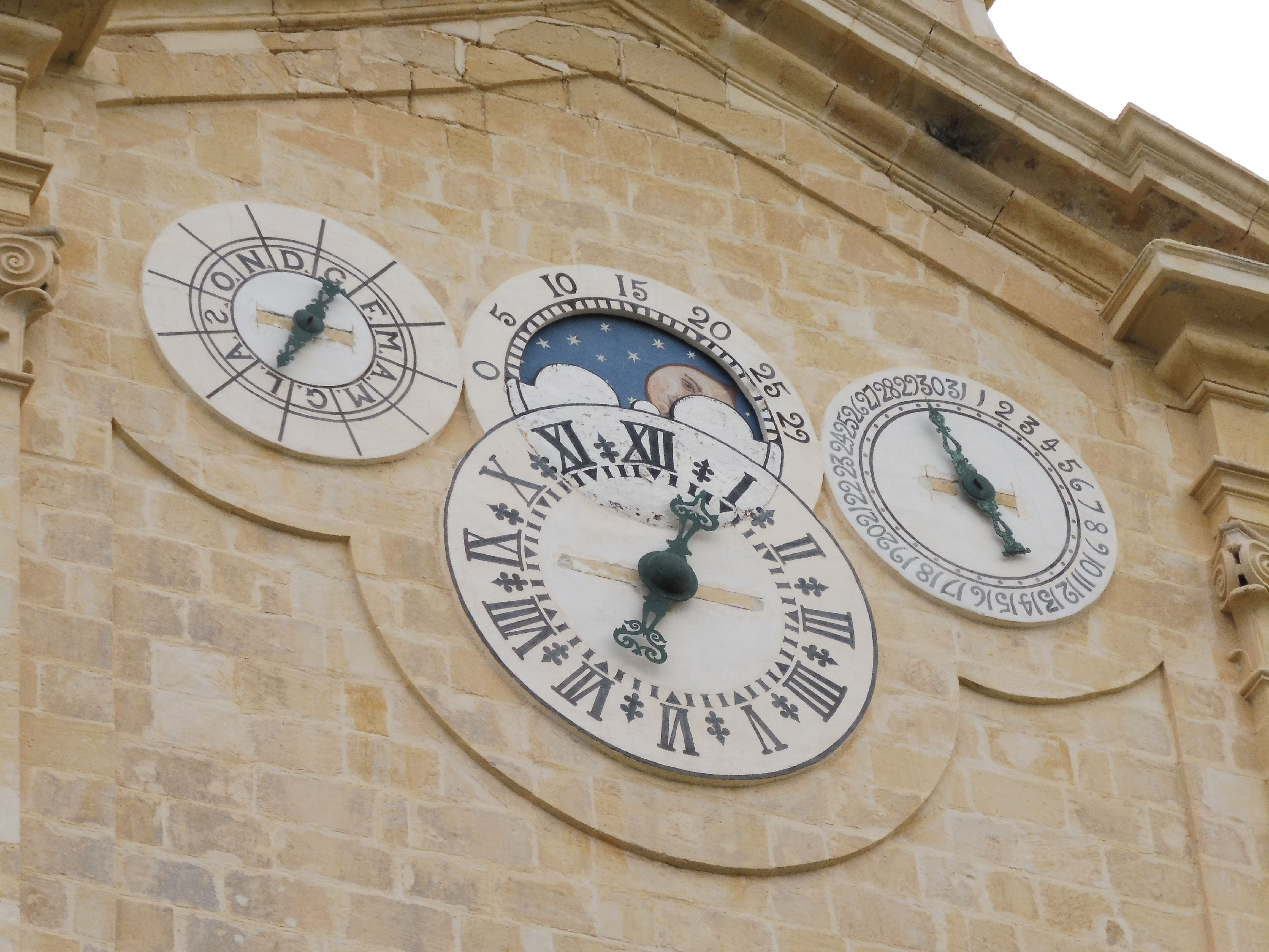 Astronomical clock in "Prince Alfred's Court" of the Grand Master's palace in Valletta (Malta), showing one dial for the time (without a minute hand), one dial for the month, one dial for the day and one dial for the phase of moon